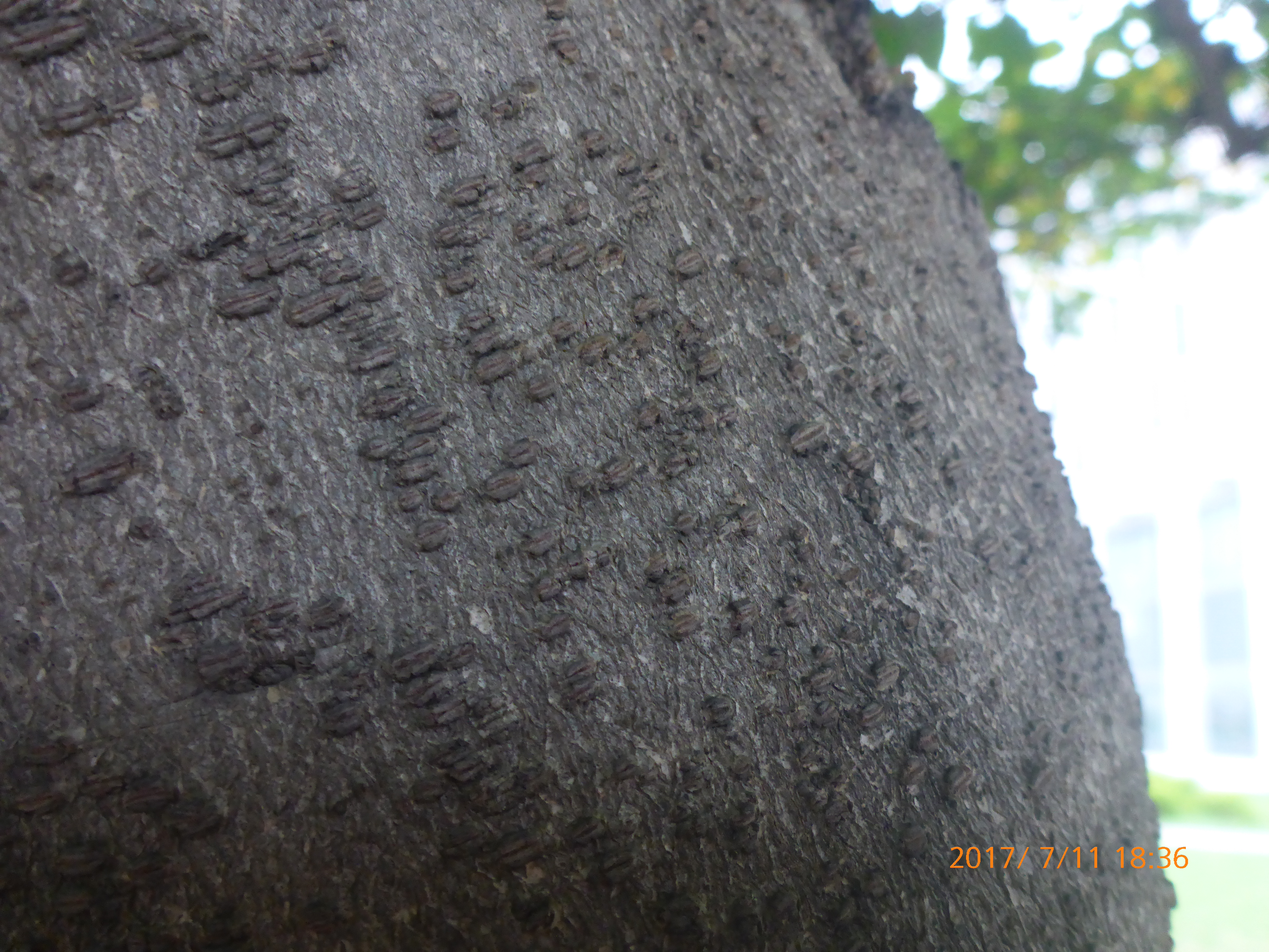 Phanera purpurea bark